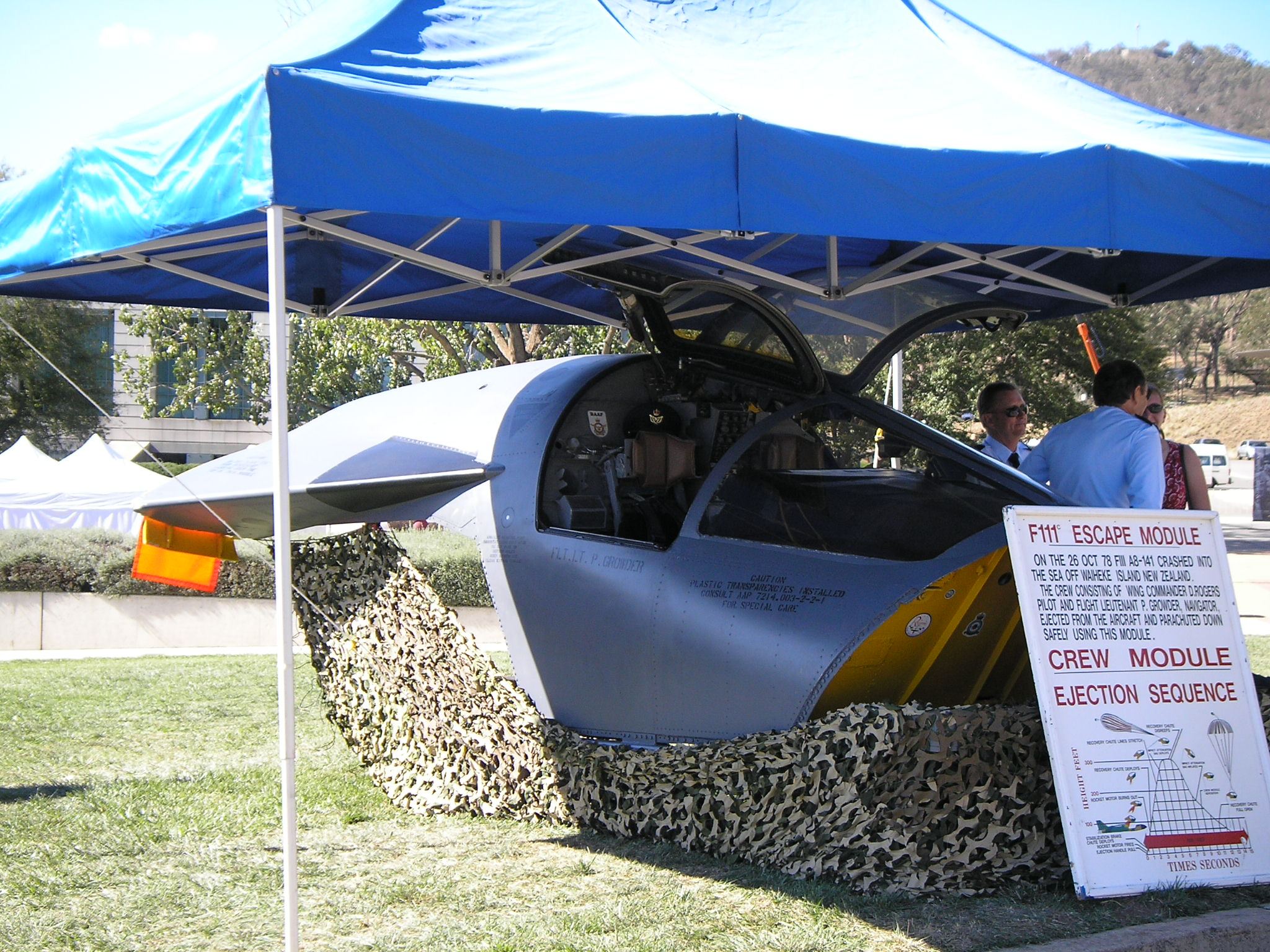 The escape capsule from an Australian F-111C on display at the Australian War Memorial's 2007 open day.